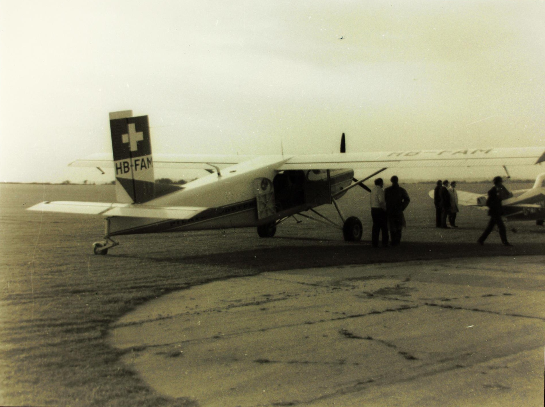 Pilatus PC-6/350 Porter, HB-FAM, s/n 541.